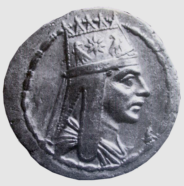 Coin with Tigranes the Great portrait (Armenian king, ruled 95 BCE–55 BCE). Coin - Ar, 29mm, 16,41g.